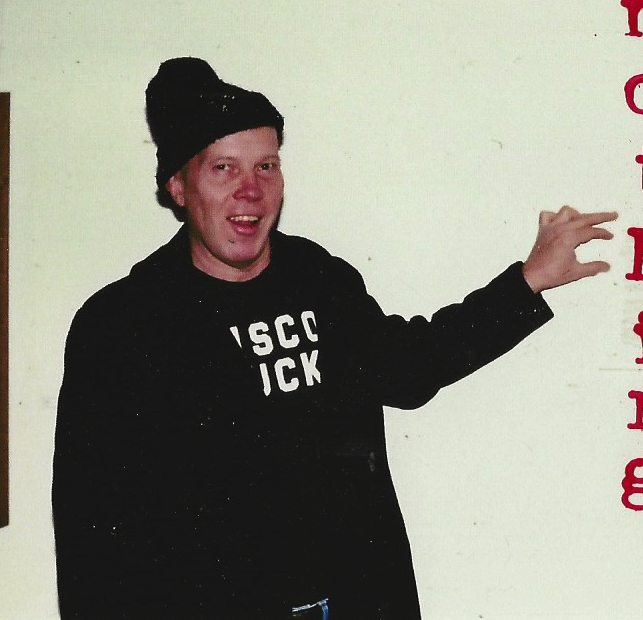 Photo of Ray Johnson and CrackerJack Kid